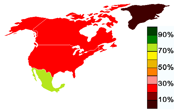 Map of Catholic population percentages in North America